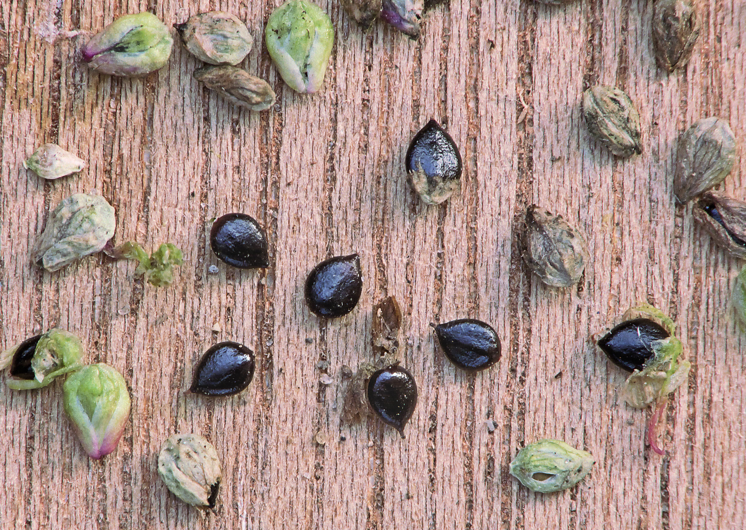 Persicaria maculosa seeds, 3 mm long and fruits